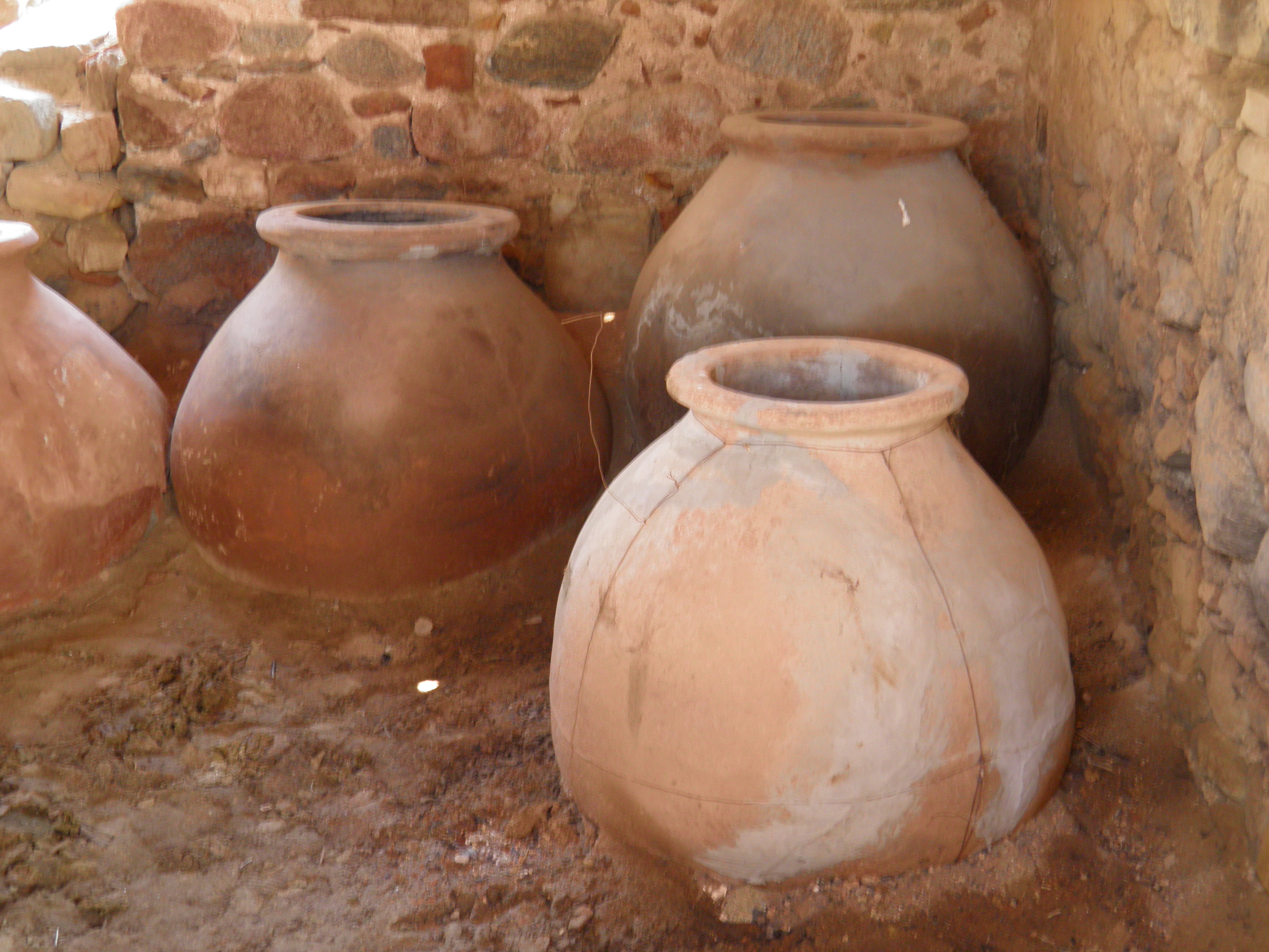 Bargala (Fortified town - 4th/6th century), Macedonia